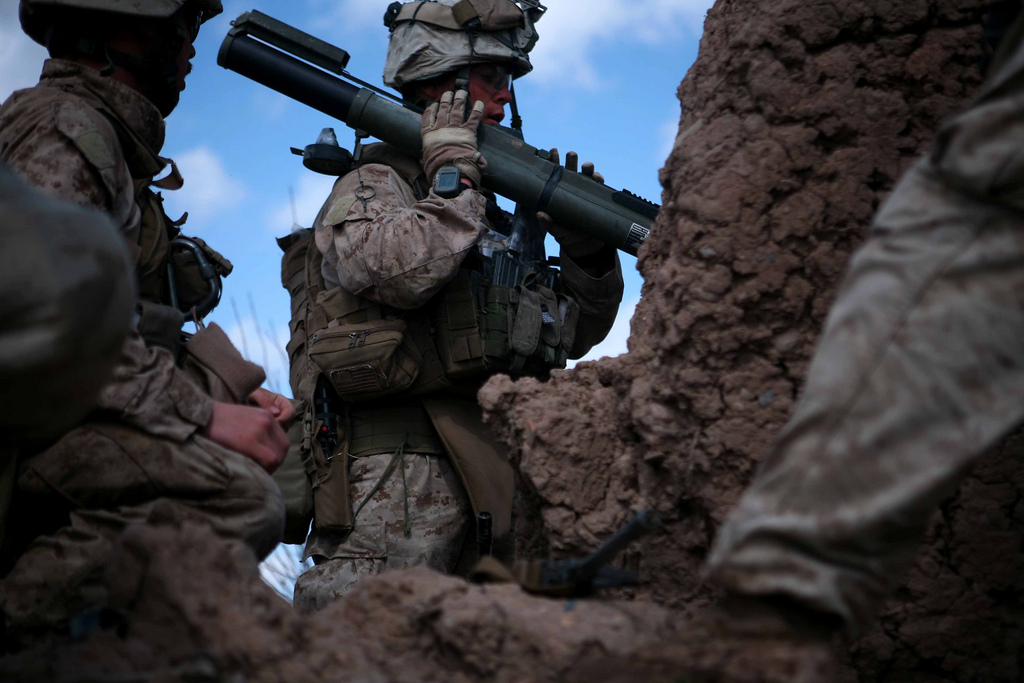 U.S. Marines with Bravo Company, 1st Battalion, 6th Marine Regiment return fire on enemy forces in Marjeh, Afghanistan on Feb. 22, 2010. Marines are securing the city of Marjeh from the Taliban. (Official U.S. Marine Corps photo by Lance Cpl Andres J. Lugo)